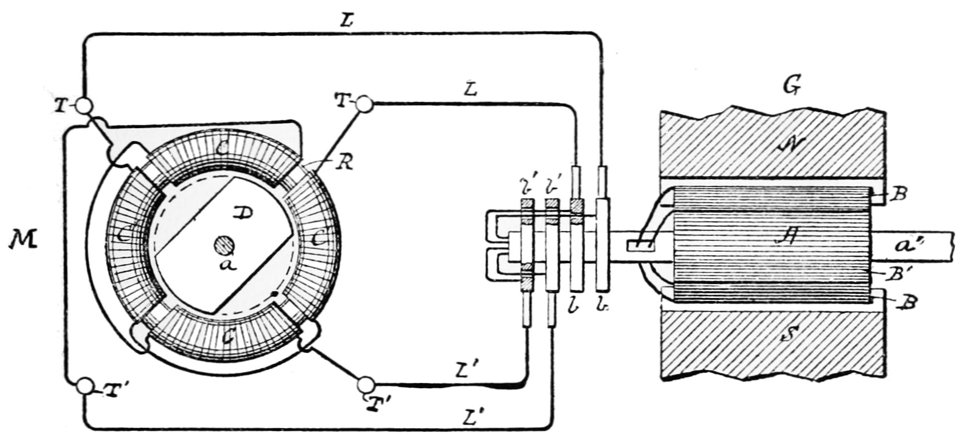 Diagram of the Tesla motor connections